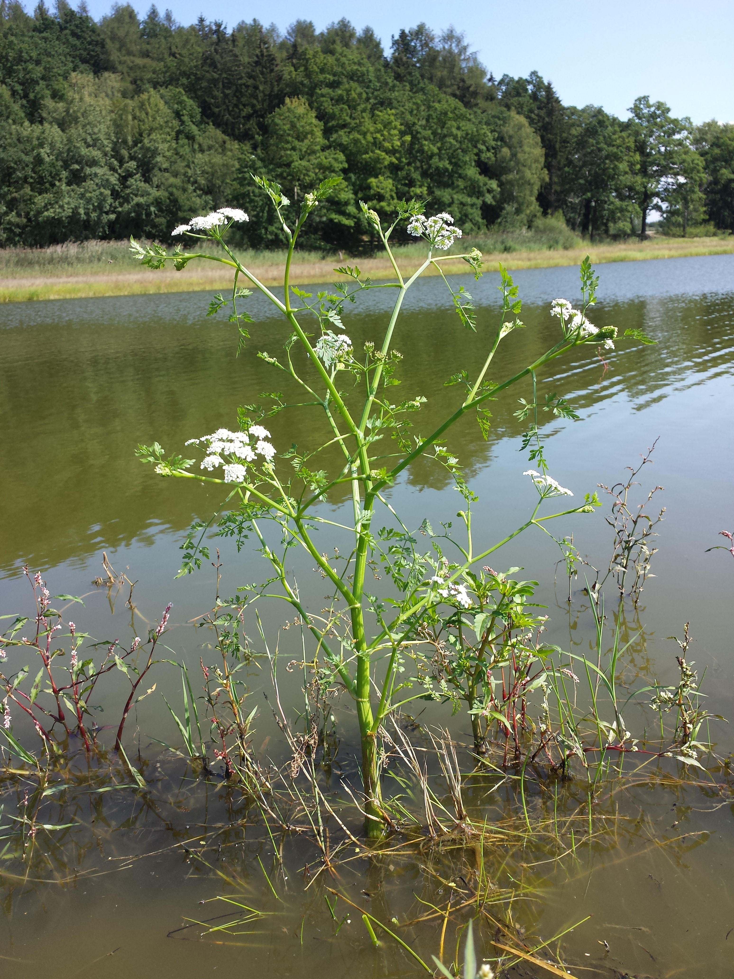 Habitus Taxonym: Oenanthe aquatica ss Fischer et al. EfÖLS 2008 ISBN 978-3-85474-187-9 Location: Žárský rybník, Jihočeský kraj, Czech Republic - ca. 500 m a.s.l. Habitat: shore of a pond